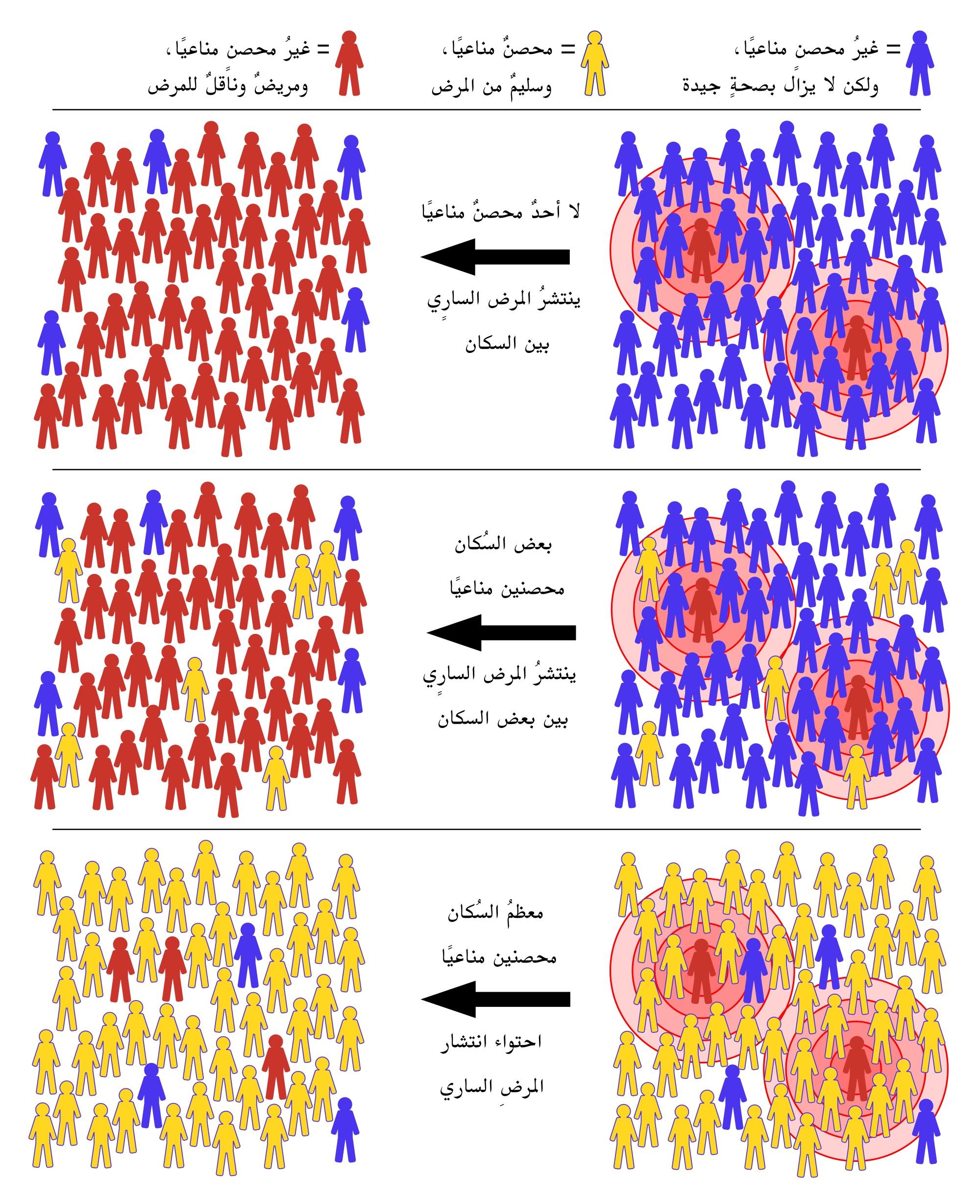 The top box shows an outbreak in a community in which a few people are infected (shown in red) and the rest are healthy but unimmunized (shown in blue); the illness spreads freely through the population. The middle box shows a population where a small number have been immunized (shown in yellow); those not immunized become infected while those immunized do not. In the bottom box, a large proportion of the population have been immunized; this prevents the illness from spreading significantly, including to unimmunized people. In the first two examples, most healthy unimmunized people become infected, whereas in the bottom example only one fourth of the healthy unimmunized people become infected.